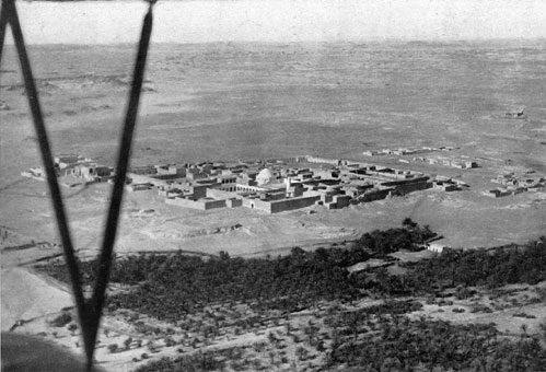 An aerial view of the village of Giarabub (Ministry of War Office Propaganda, Rome 1941).